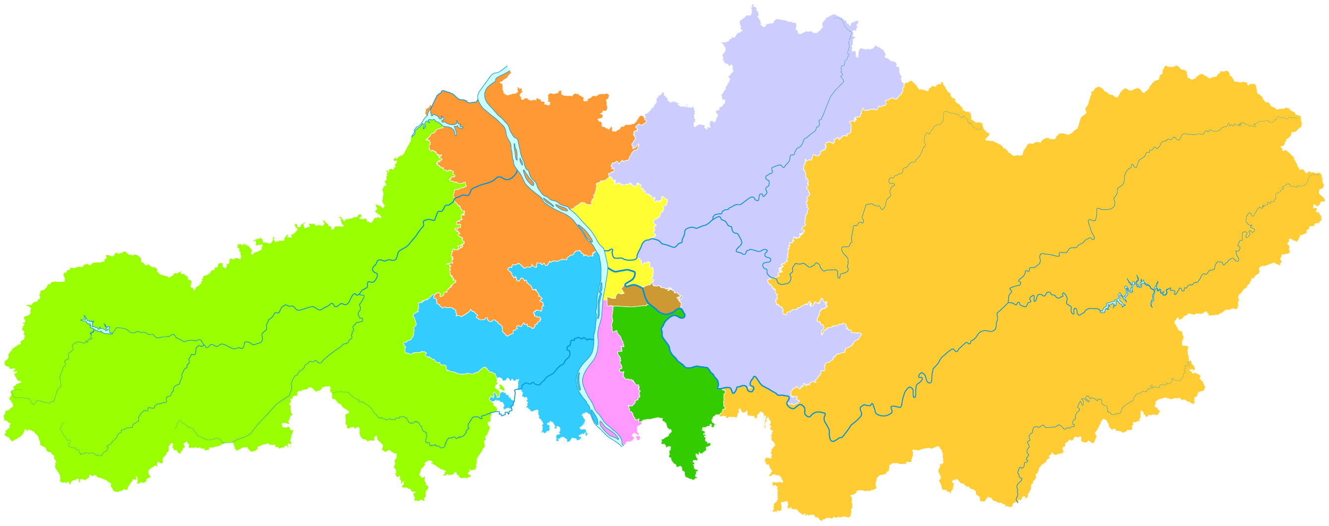 administrative divisions of Changsha City, Hunan, China